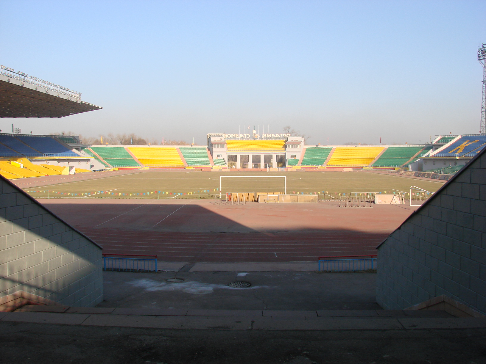 Central Stadium in Almaty